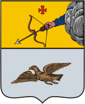 Malmyzh (Kirov oblast), coat of arms (1781)